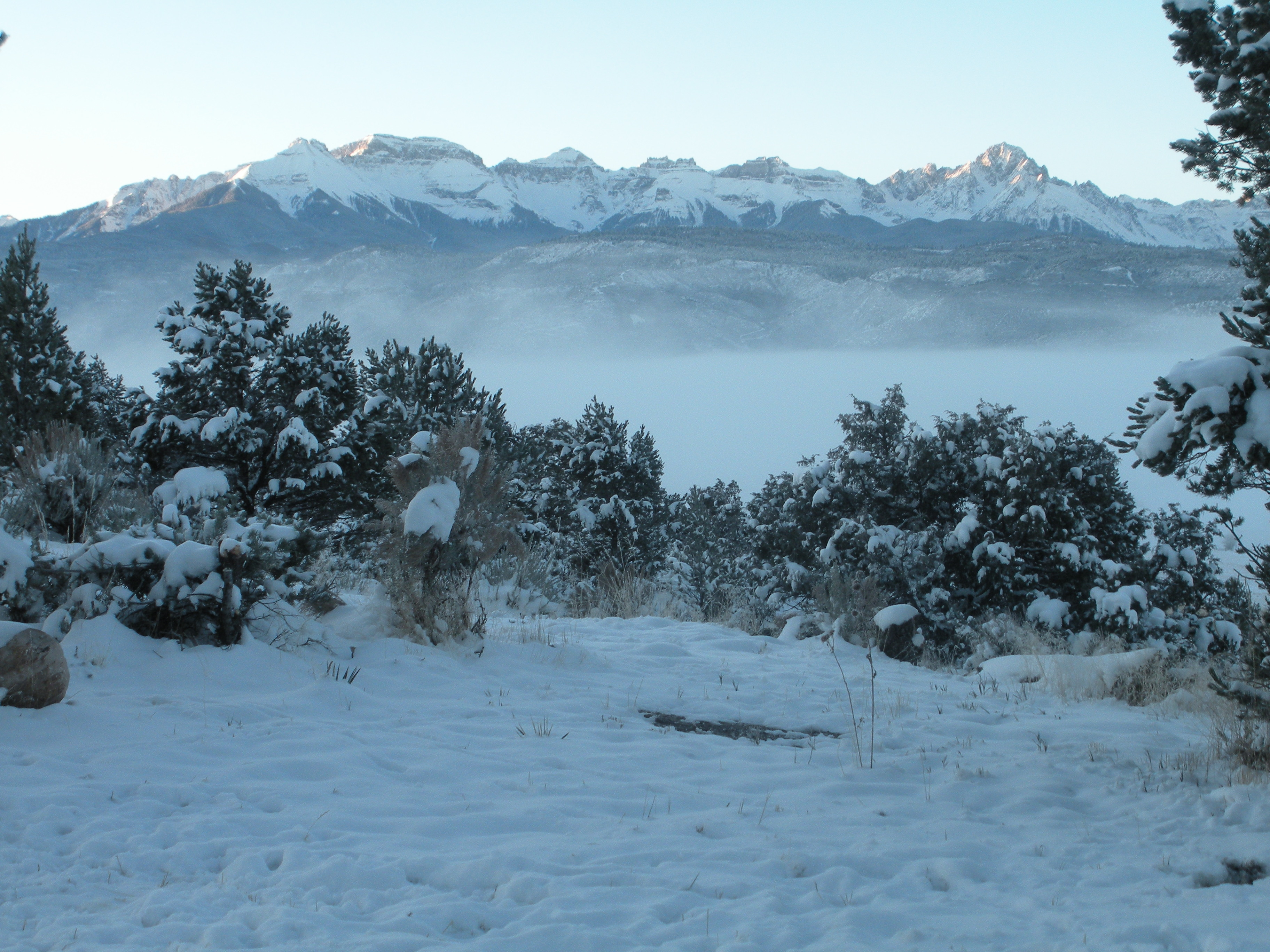 Sunrise over the San Juan mountains in winter time near Ridgway, Colorado